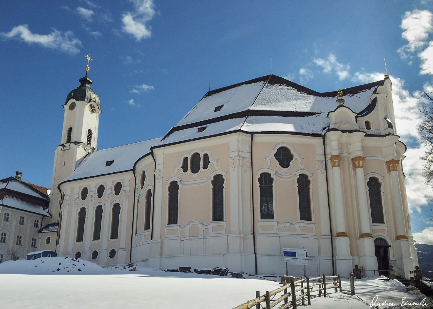 Wieskirche in winter